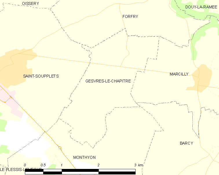 Map of French municipality Gesvres-le-Chapitre